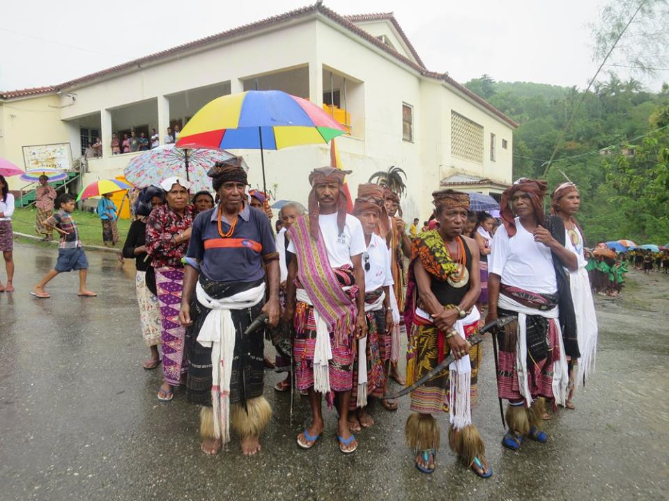 Elders of Lahane Oriental